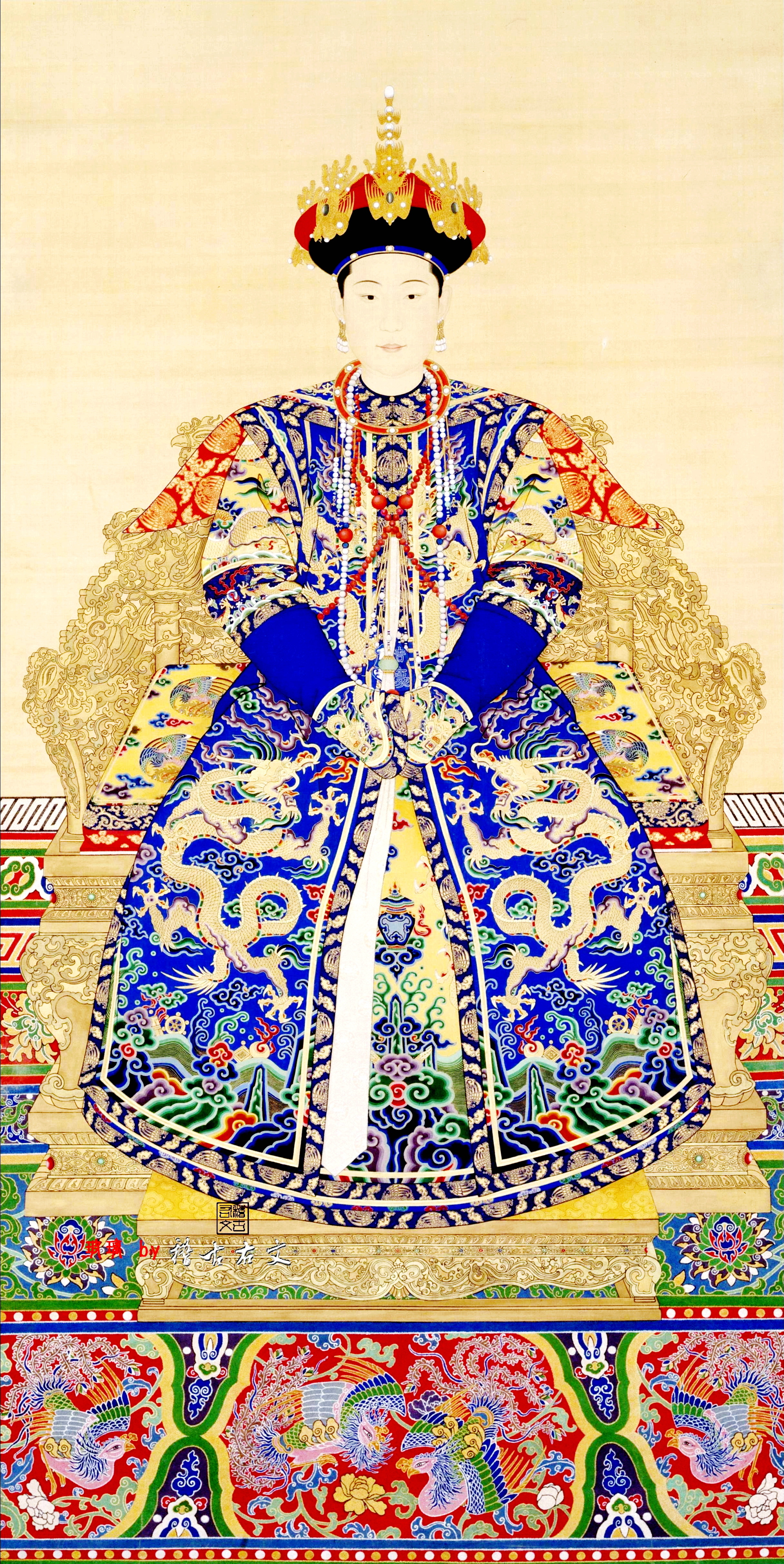 雍正皇后肖像